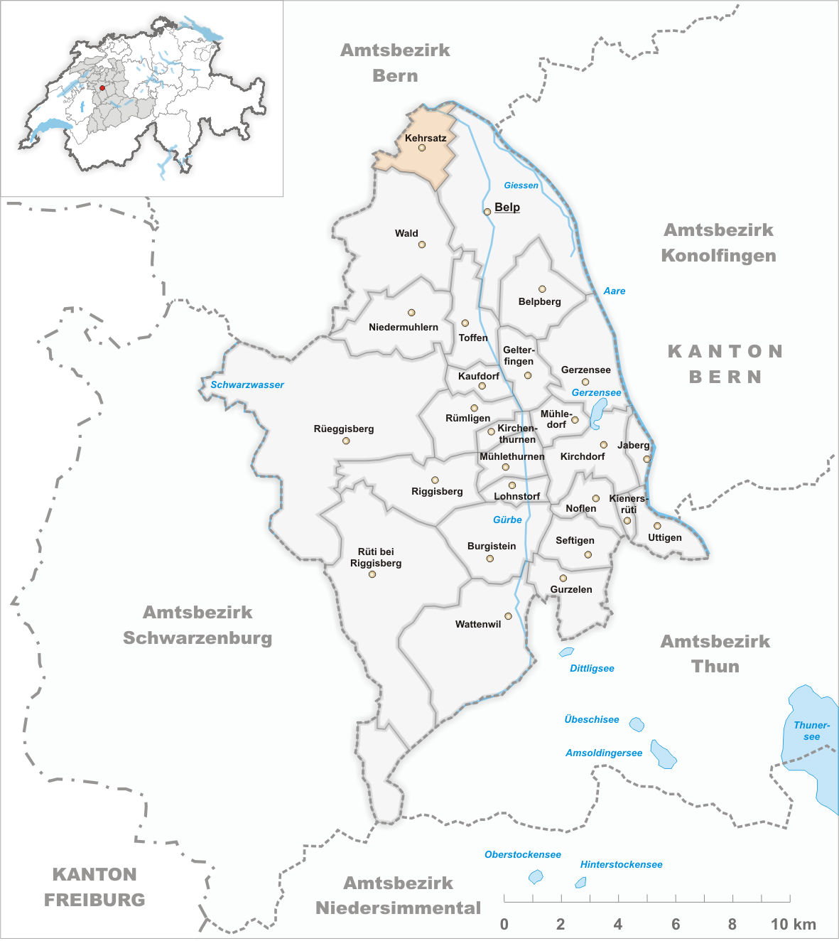 Municipality Kehrsatz